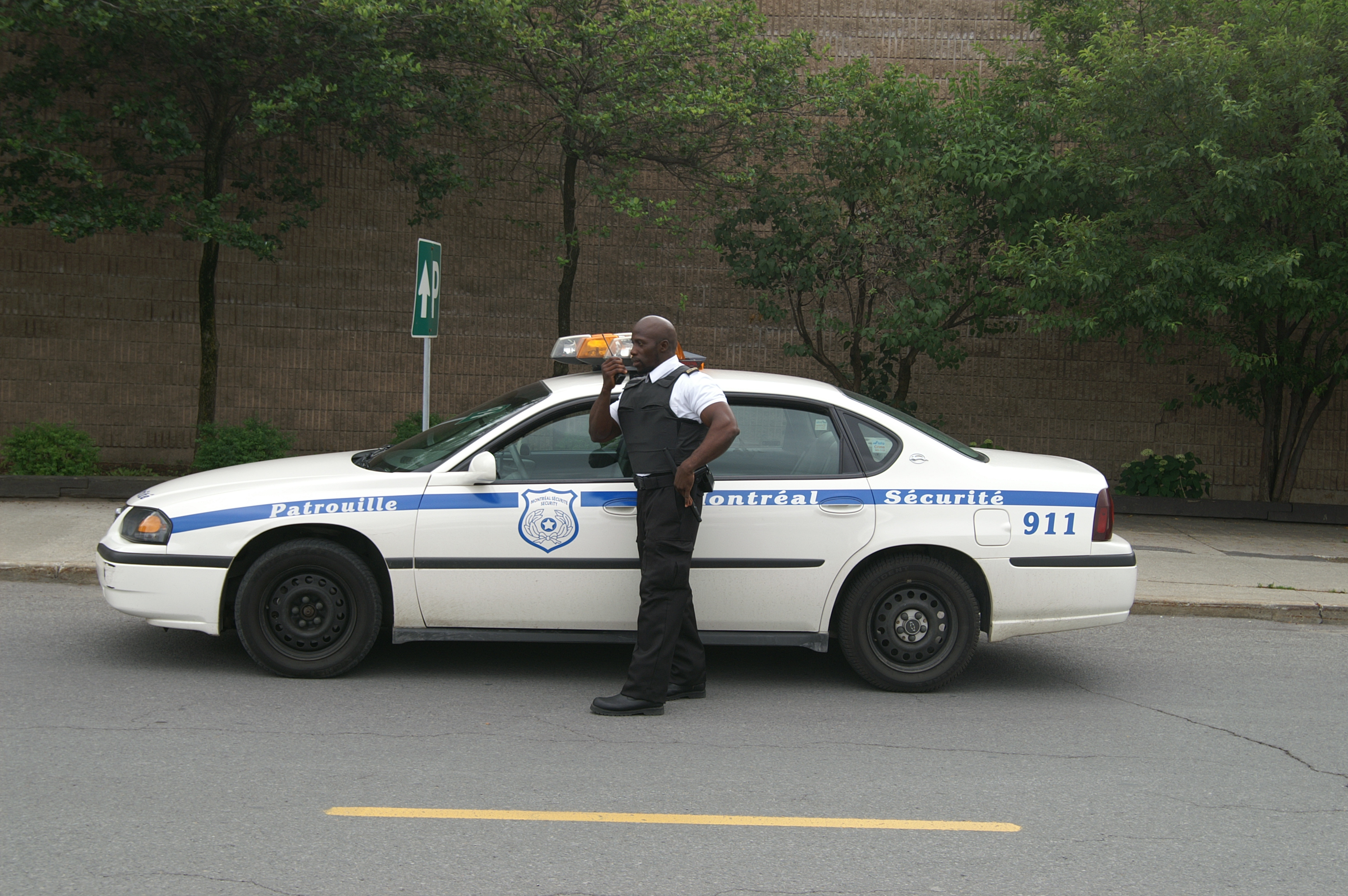 2003 Chevrolet Impala. photographed in Montreal, Quebec, Canada.